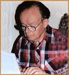 Dr. László Lindner (23.12.1916 - 21.08.2004) chess composer, chess player and journalist from Budapest